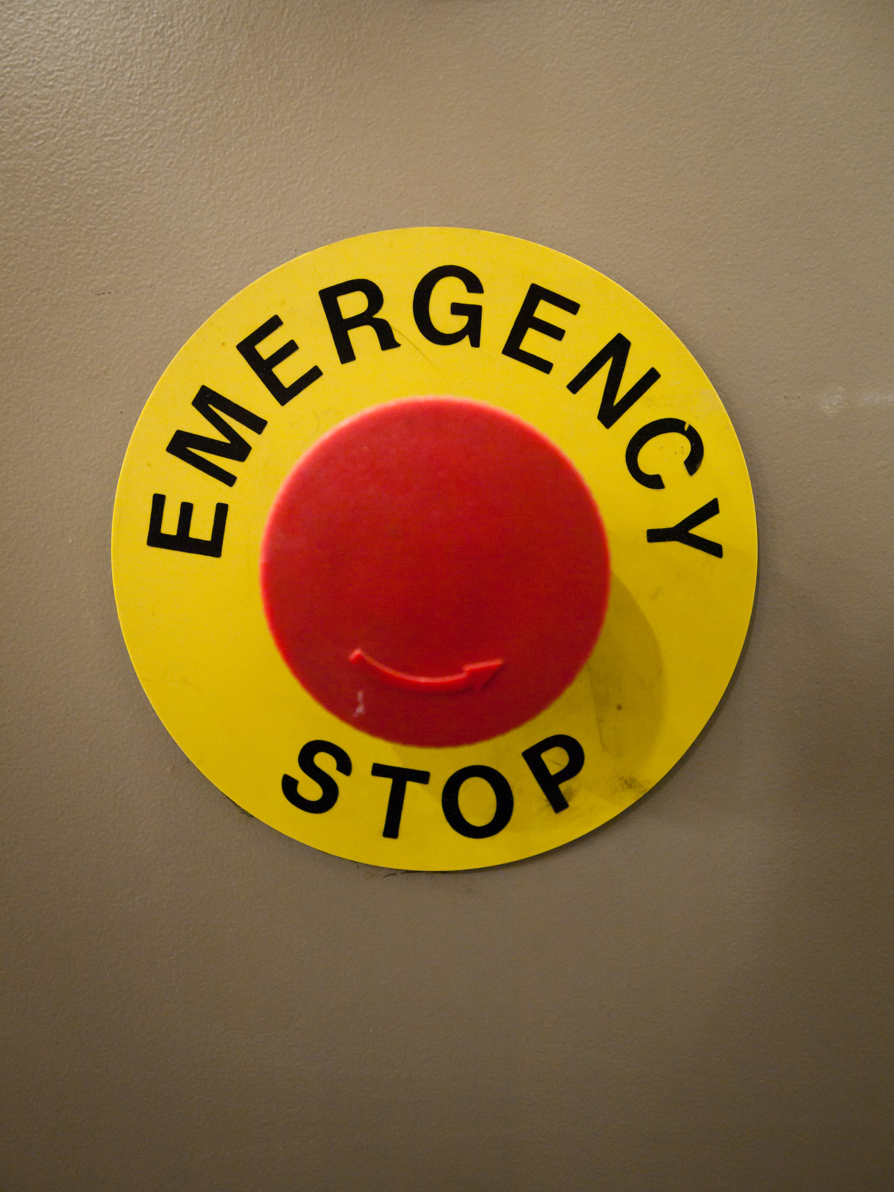 Sometimes... when I've got to much to do, I forget to take care about myself... sleep, for example. At those moments you need to push the EMERGENCY STOP button.